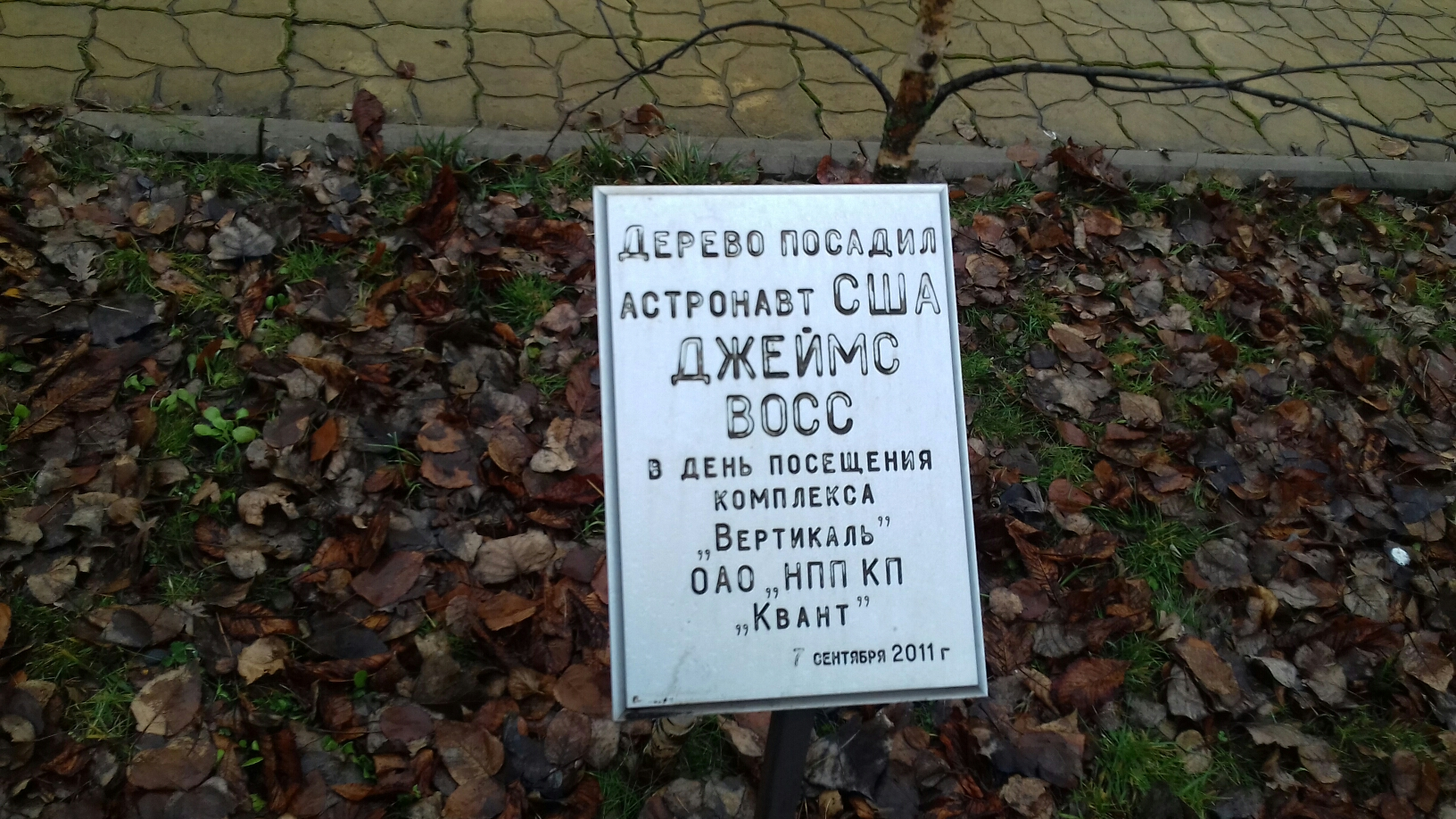 A memorial tree planted by James S. Voss at yard of Rostov Museum of Cosmonautics, Rostov-on-Don, Russia.